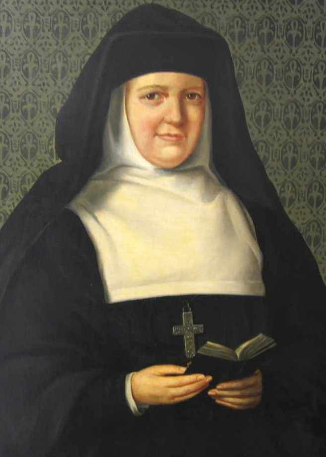 Mother Chappuis, a co-founder of the Oblates of St Francis de Sales